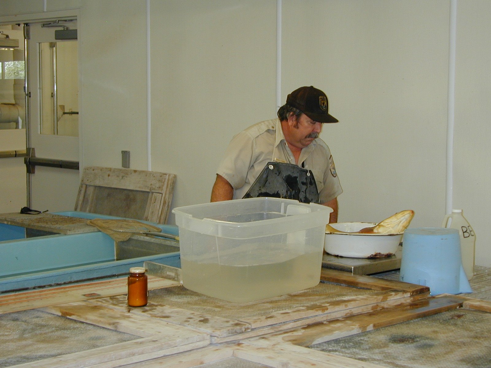 Dexter National Fish Hatchery & Technology Center, Dexter, New Mexico - Recording length and weight before spawning Colorado pikeminnow